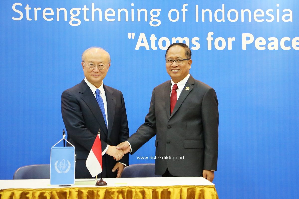 Strengthening Indonesia-IAEA Cooperation in Development and Utilization of Nuclear Technology for Peace